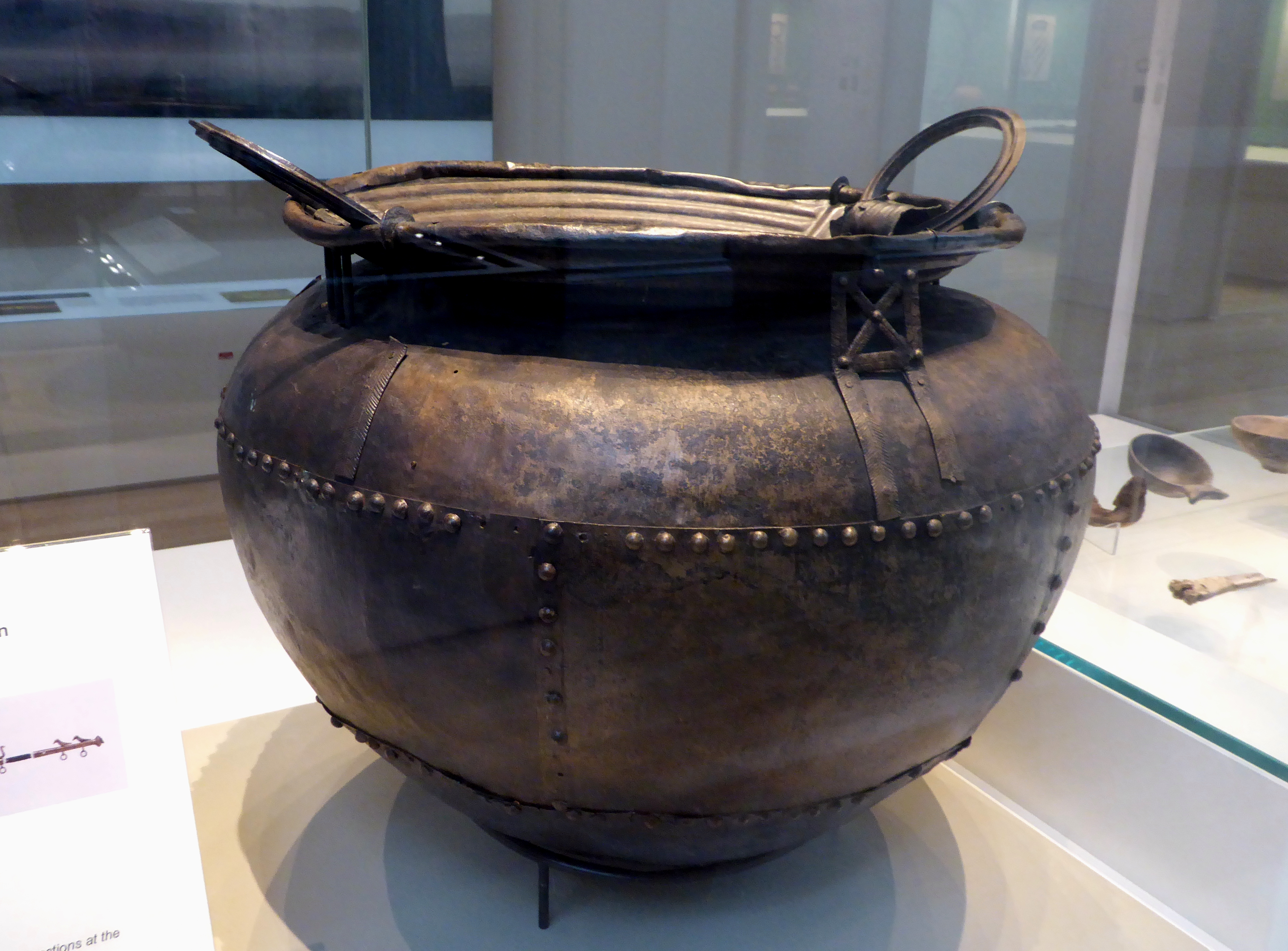 The battersea cauldron, dated to between 800 and 650 BCE, recovered from the River Thames at Battersea, London. On display in Room 50 at the British Museum (PE 1861,0309.1).